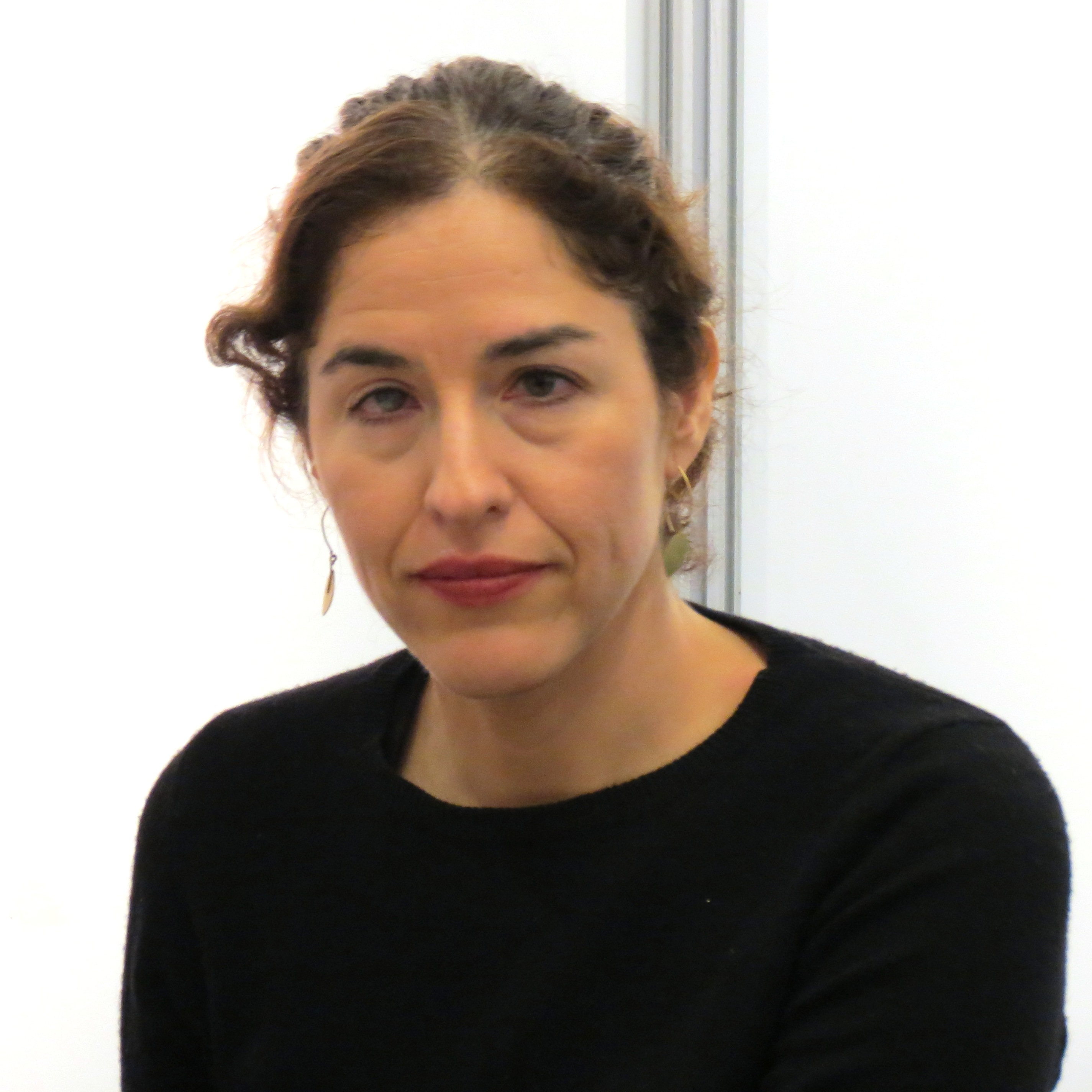 Mexican writer Guadalupe Nettel at the 2015 Göteborg Book Fair.